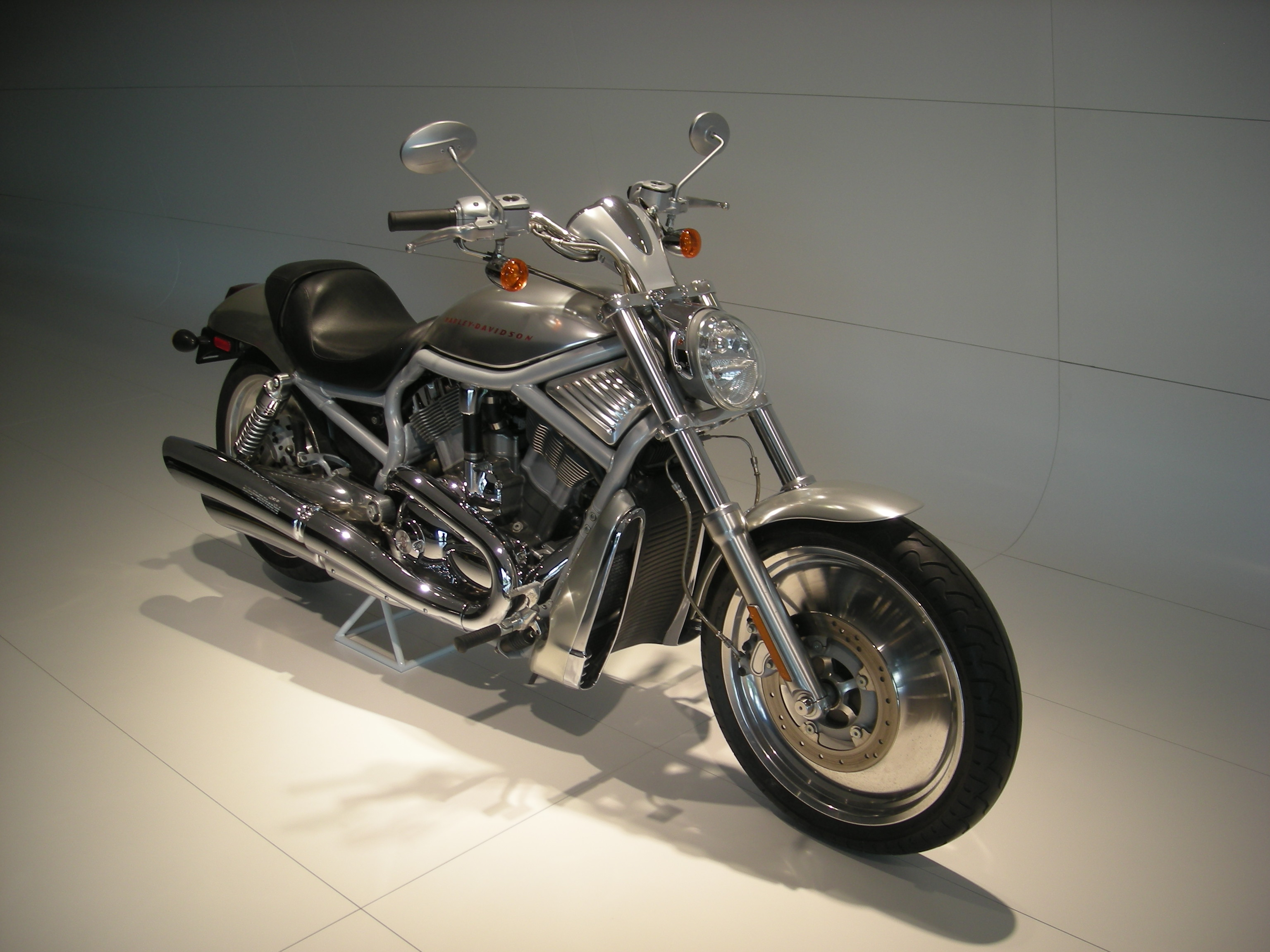 A 2002 Harley-Davidson Revolution inside the Porsche Museum in Stuttgart, Baden-Württemberg (Germany).